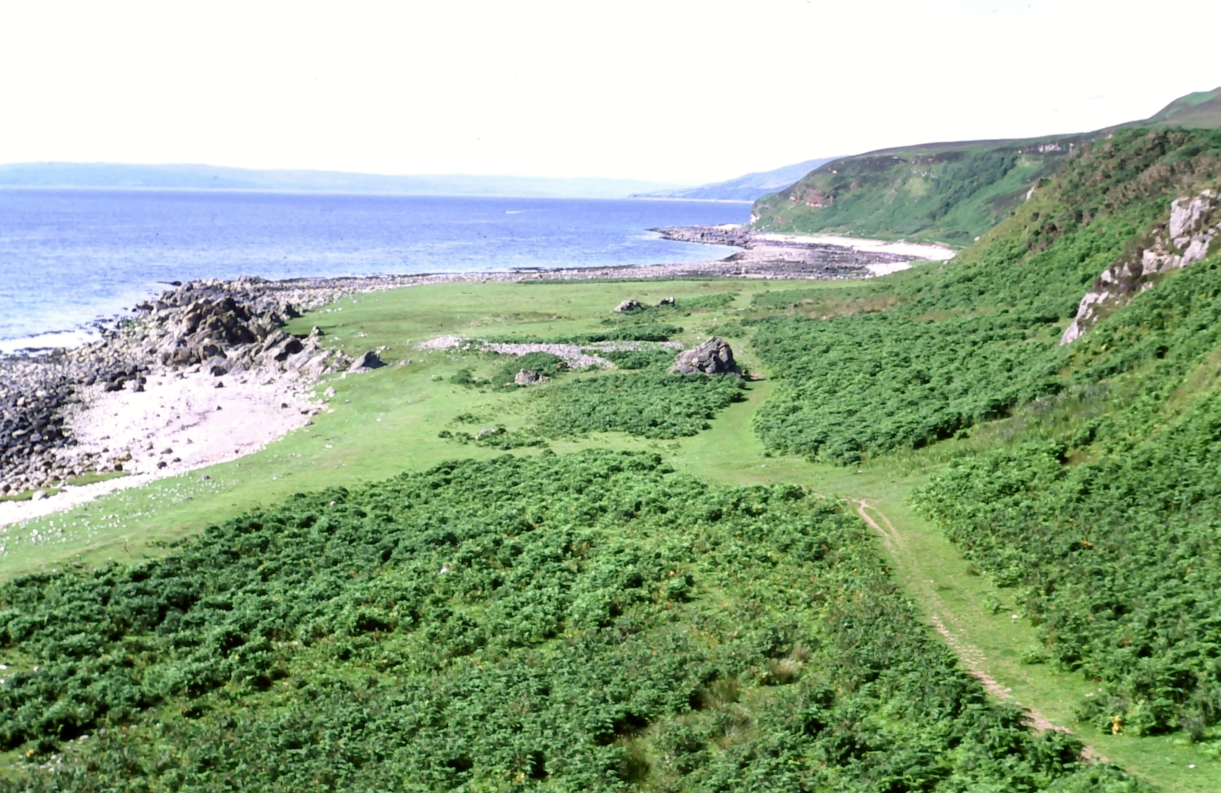 Blackwaterfoot, Arran